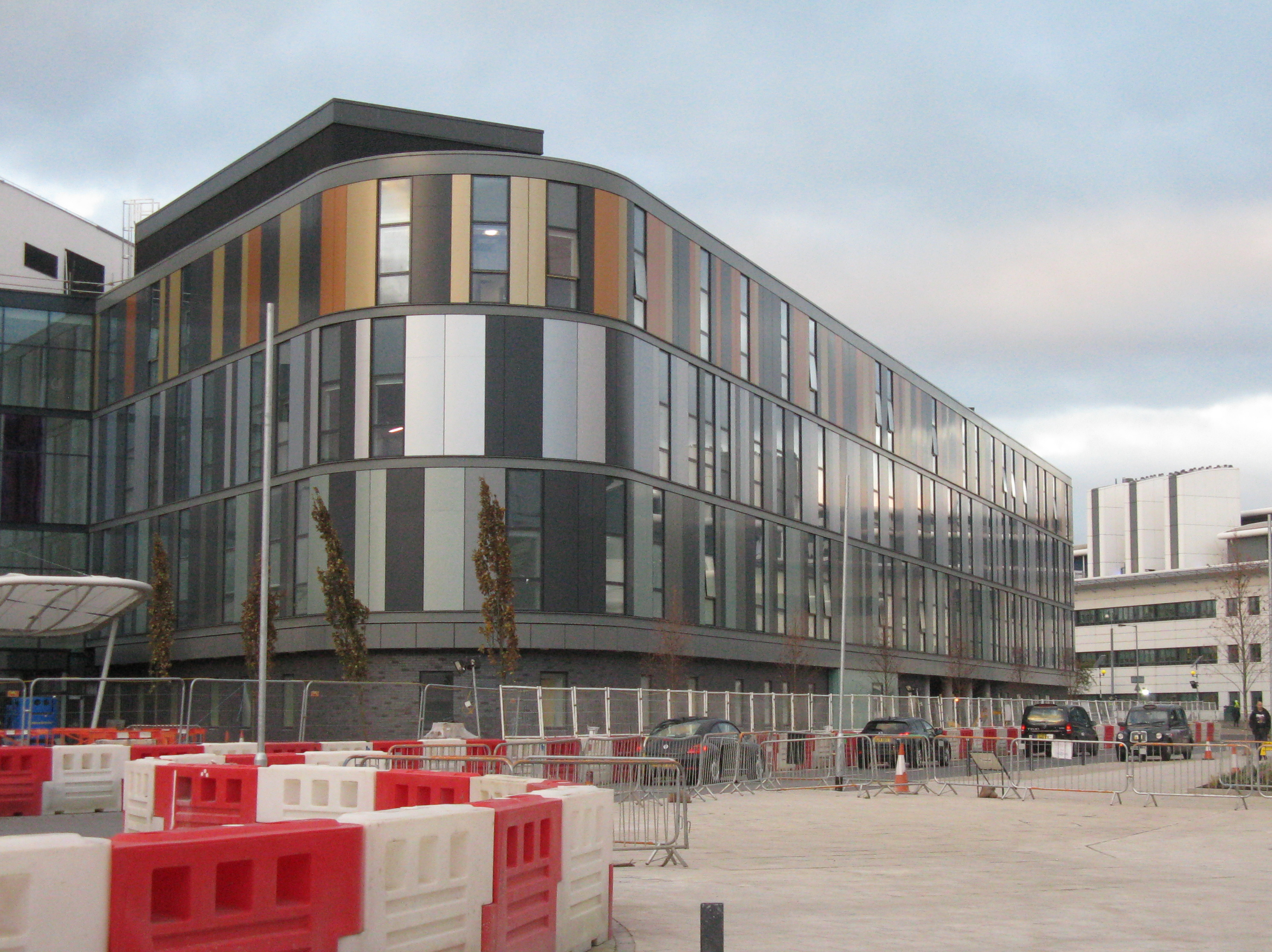 Royal Hospital for Sick Children, Department of Clinical Neurosciences and Child and Adolescent Mental Health Service